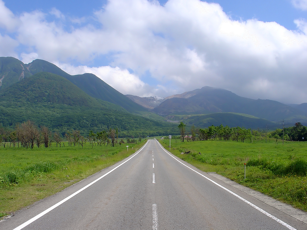 Yamanami Highway, Taken at Kokonoe Town, Oita Precture, Japan.